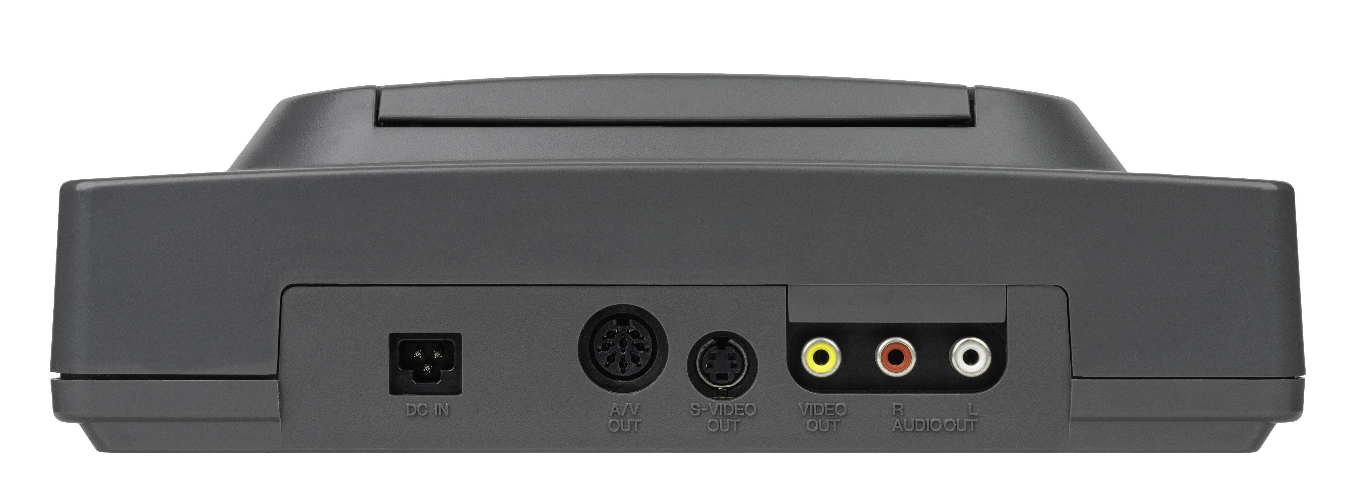 The Neo Geo CDZ, a video game console released by SNK in Japan in 1995. This is the CDZ model, the third and last version of the Neo Geo CD hardware and was only released in Japan. The Neo Geo CD was a conversion of the original Neo Geo AES hardware into a system with cheaper, more accessible media. The original AES used large cartridges that cost hundreds of dollars each, whereas this model used common CDs that cost pennies to produce. The system also included a more standard gamepad for the pack-in controller. This picture shows the back of the console, showing inputs and outputs. From left to right: DC power in, AV multi port, S-Video port and composite video and stereo sound ports.